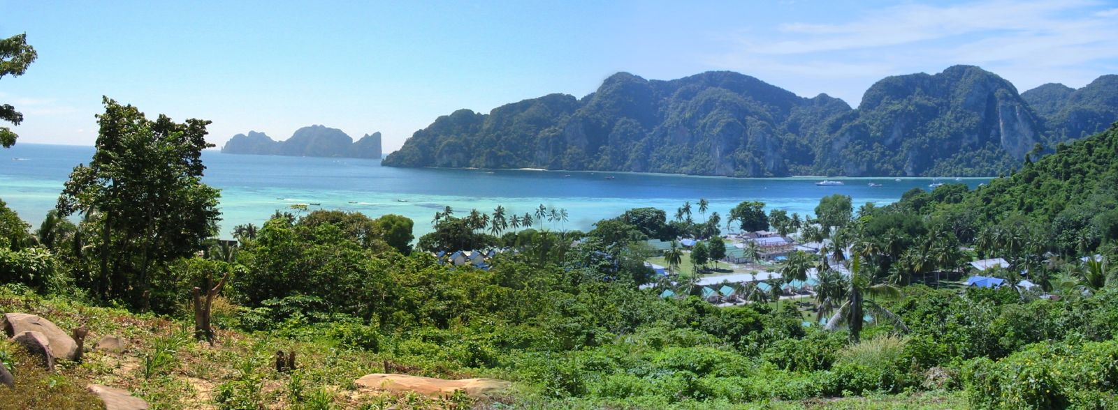 Phi-Phi Island in November 2002